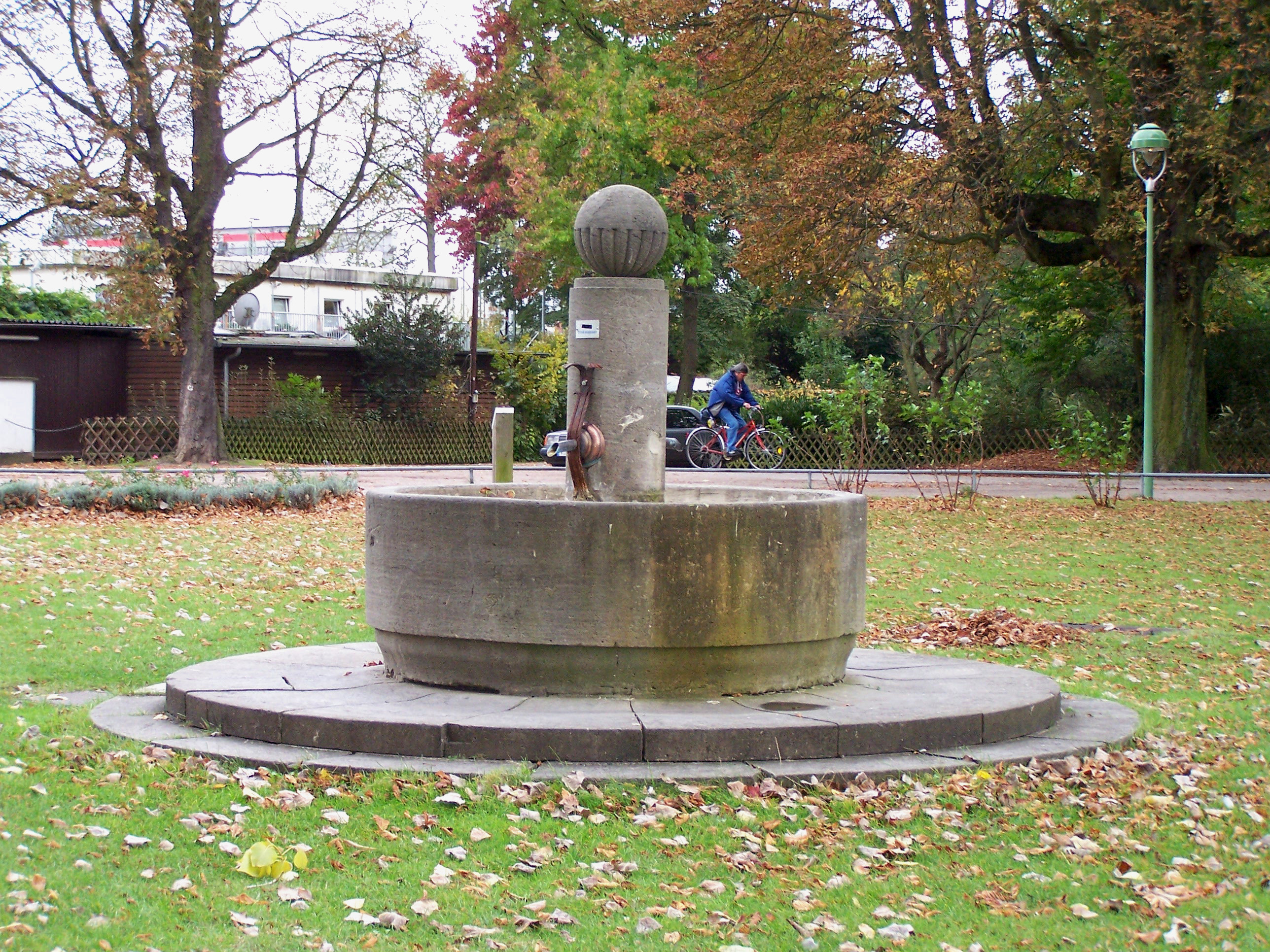 Neo-classical drinking fountain from 1927 in the Ostpark in Frankfurt am Main-Ostend, August 2011